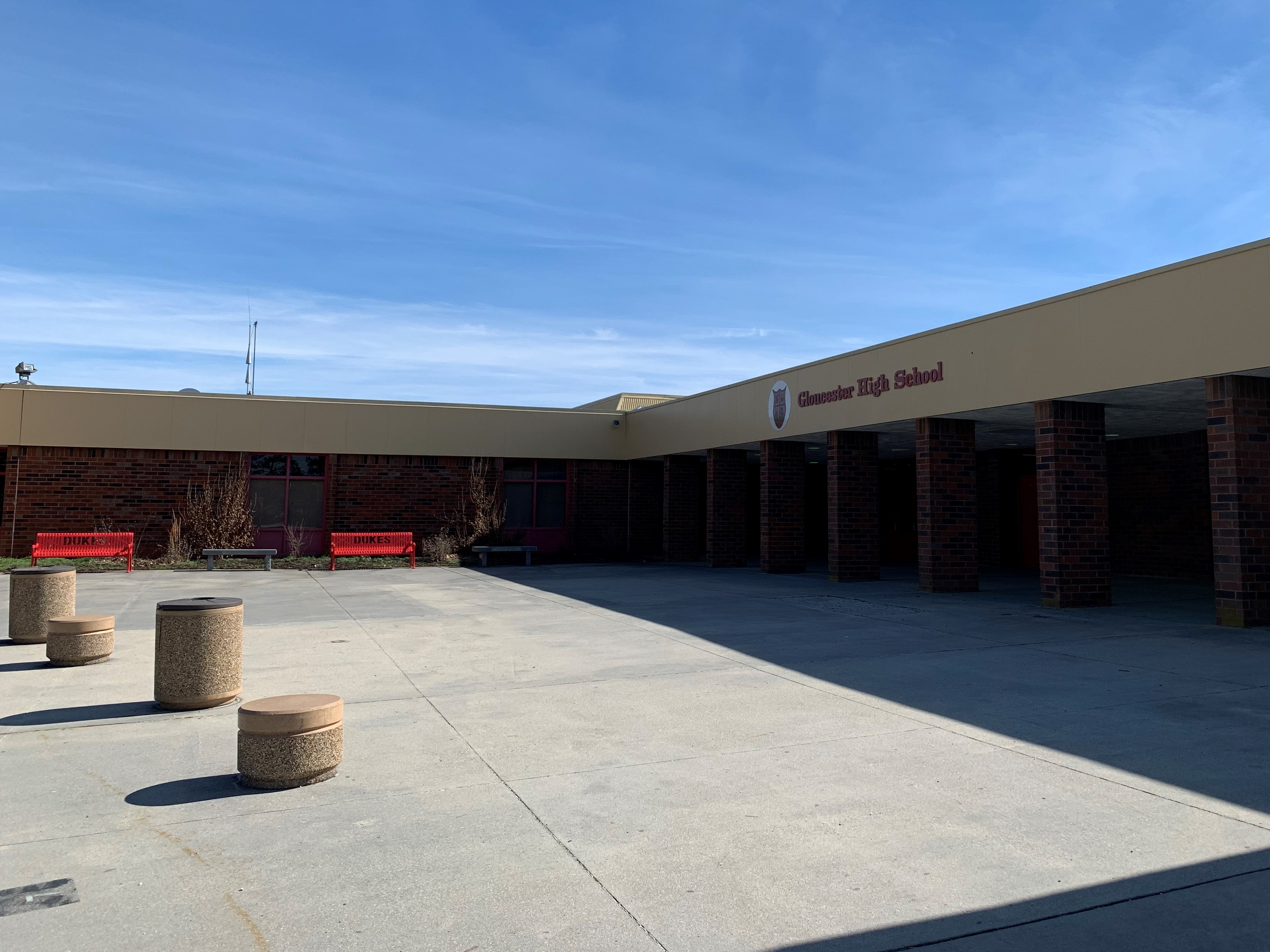 One of the entrances to Gloucester High School in Gloucester County, Virginia